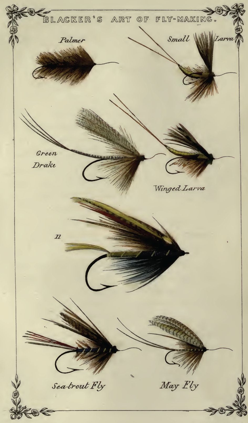 Plate 14 - Plate of Larvas and Green Drakes from William Blacker's Art of Fly Making, 1855